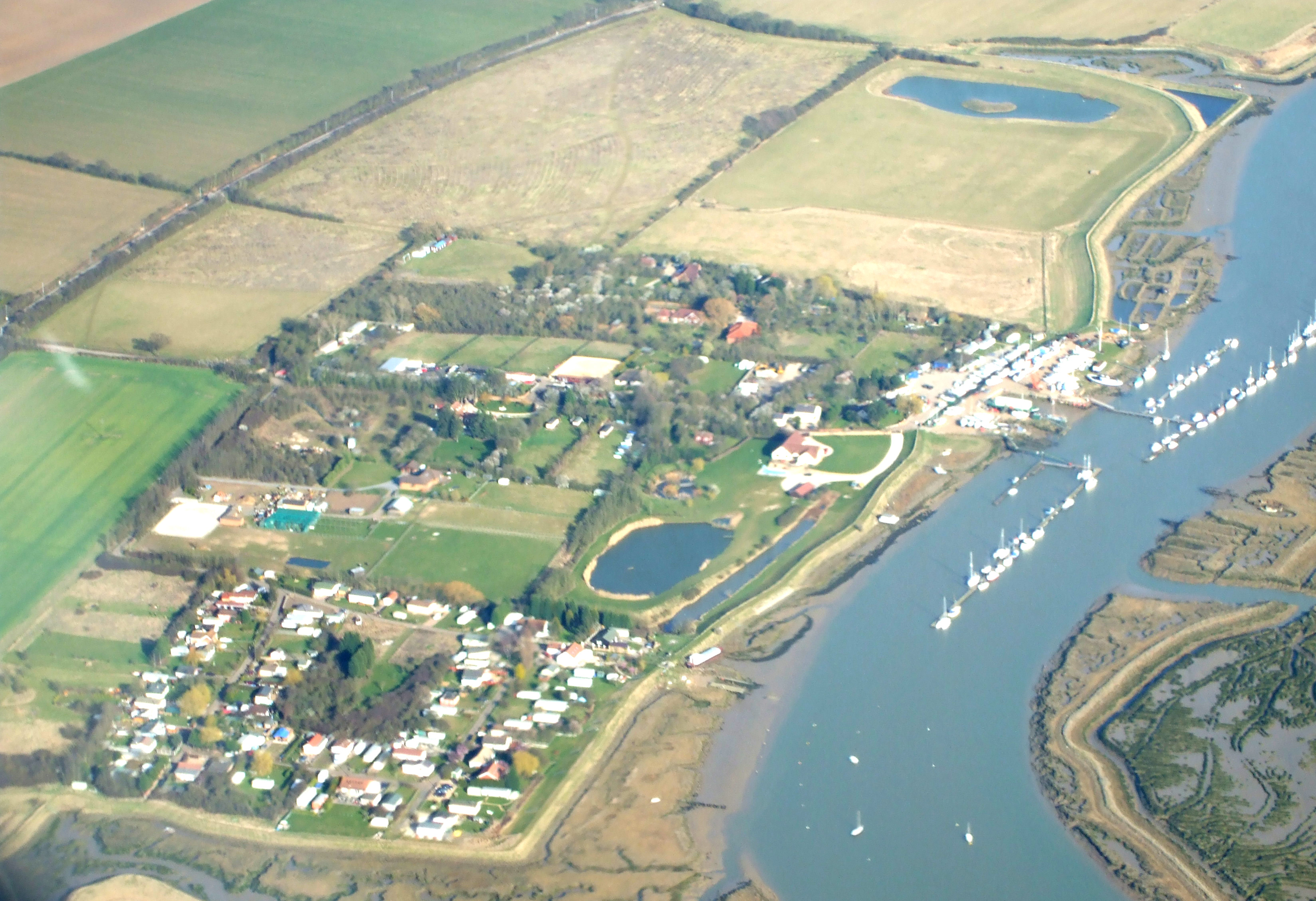 Aerial photo of Althorne